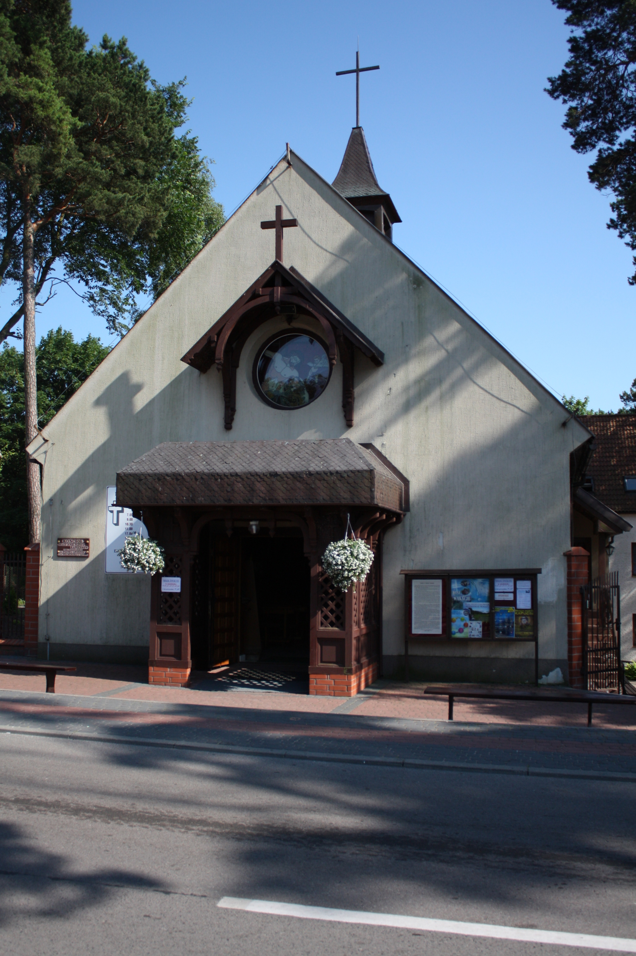 Krynica Morska, Church